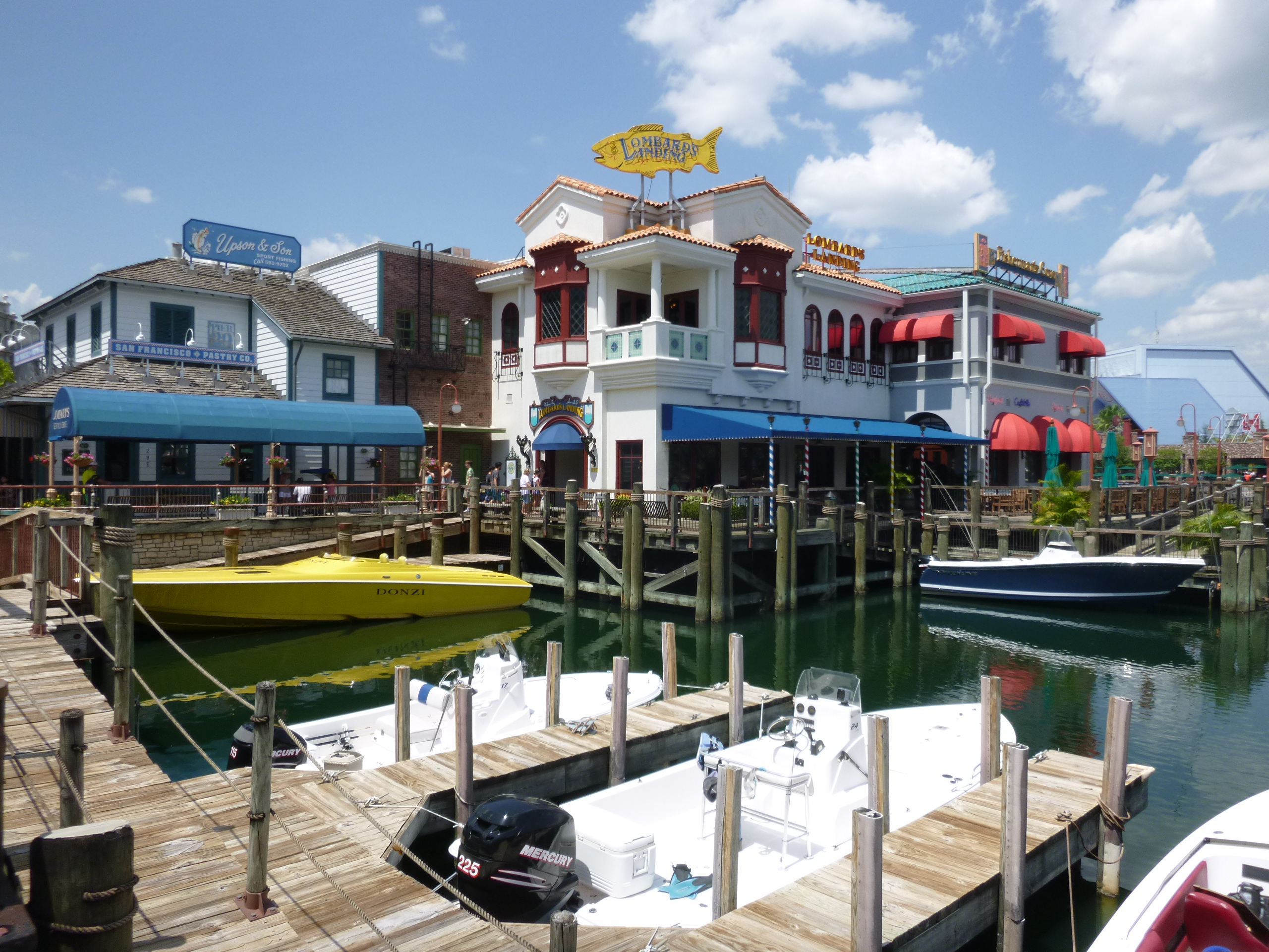 San Francisco waterfront